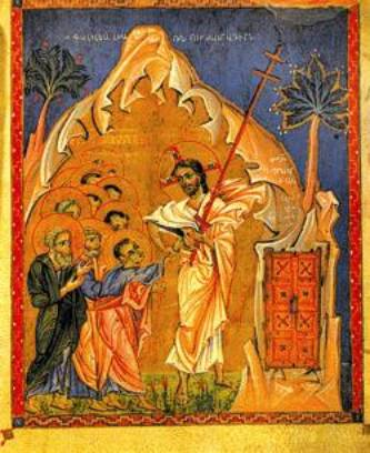 The Incredulity of St. Thomas Malatia Gospel, 1267-1268, The Incredulity of Thomas, Yerevan, Matenadaran, No. 10675